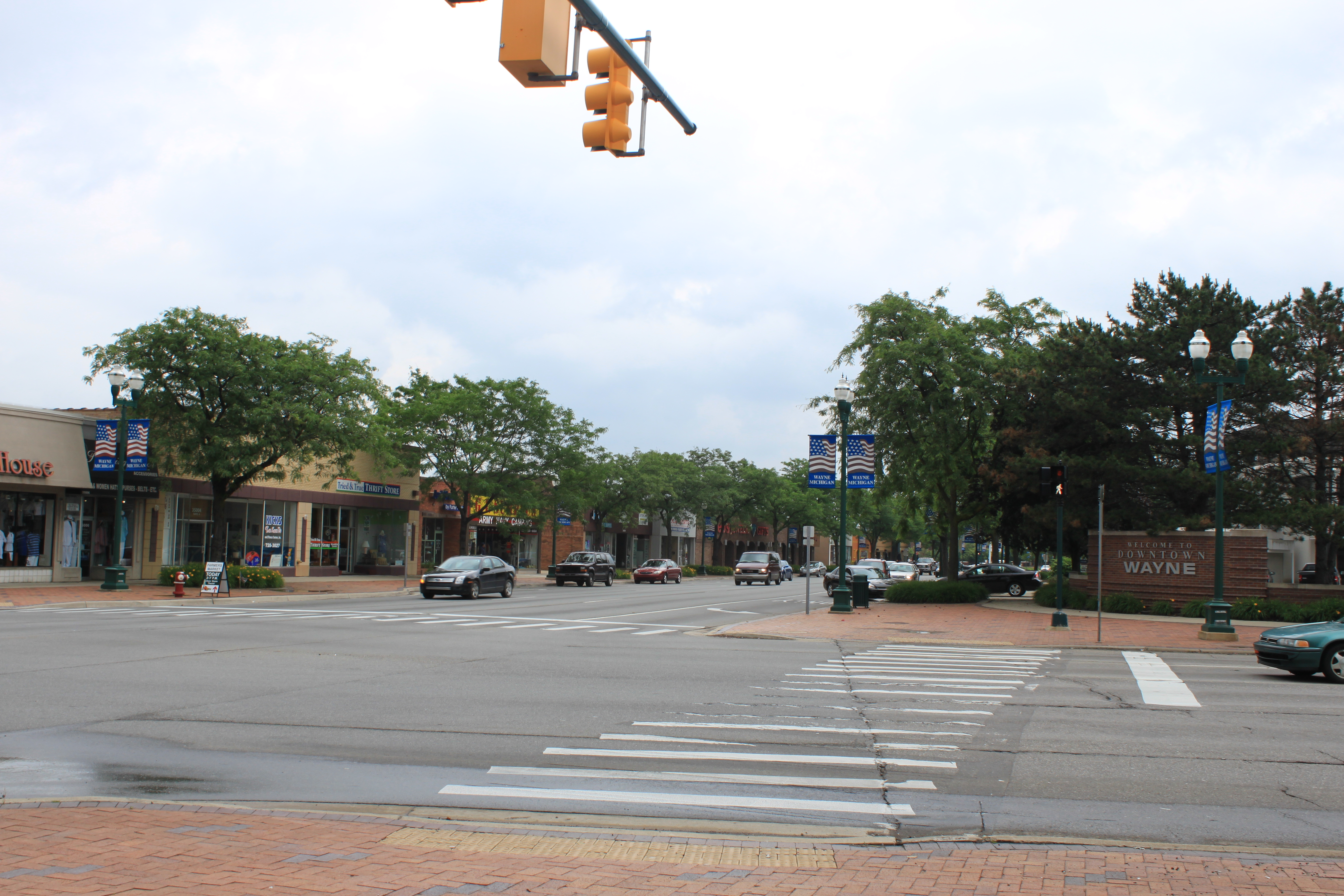 Downtown Wayne Michigan, eastbound Michigan Ave.